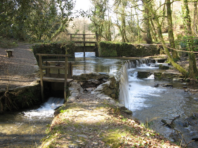 Cotehele Mill, Weir This is the river that provides the Mill with water. The sluice gate on the left takes water from the pool and channels it down stream to the Mill. The excess water goes over the weir and follows the river down to the river Tamar.